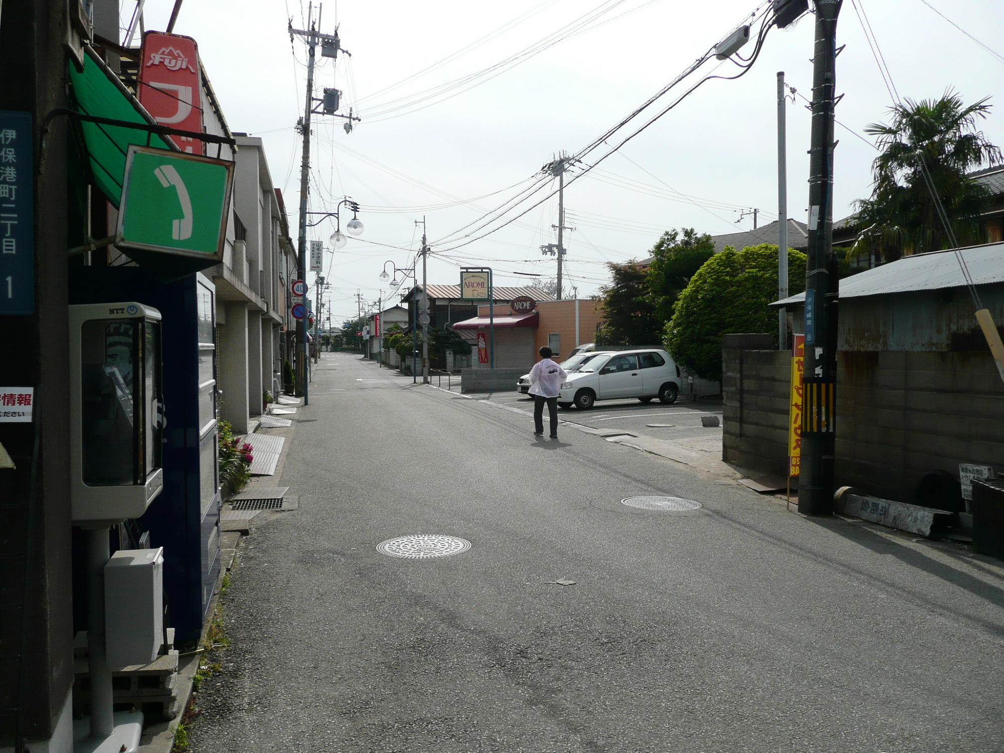 The vicinity of Iho Station.